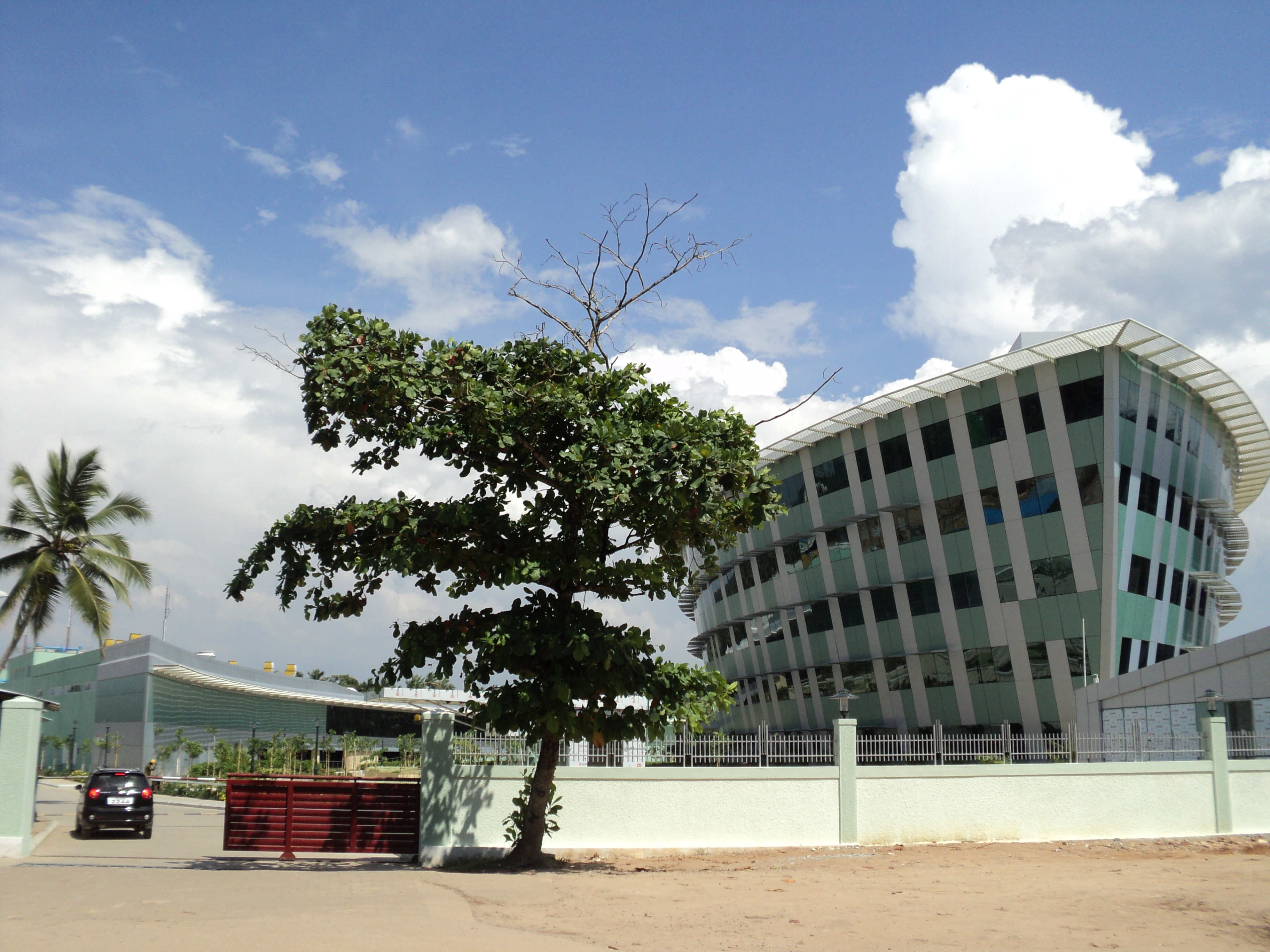 A building in the Infosys Thiruvananthapuram in Technopark Phase 3.